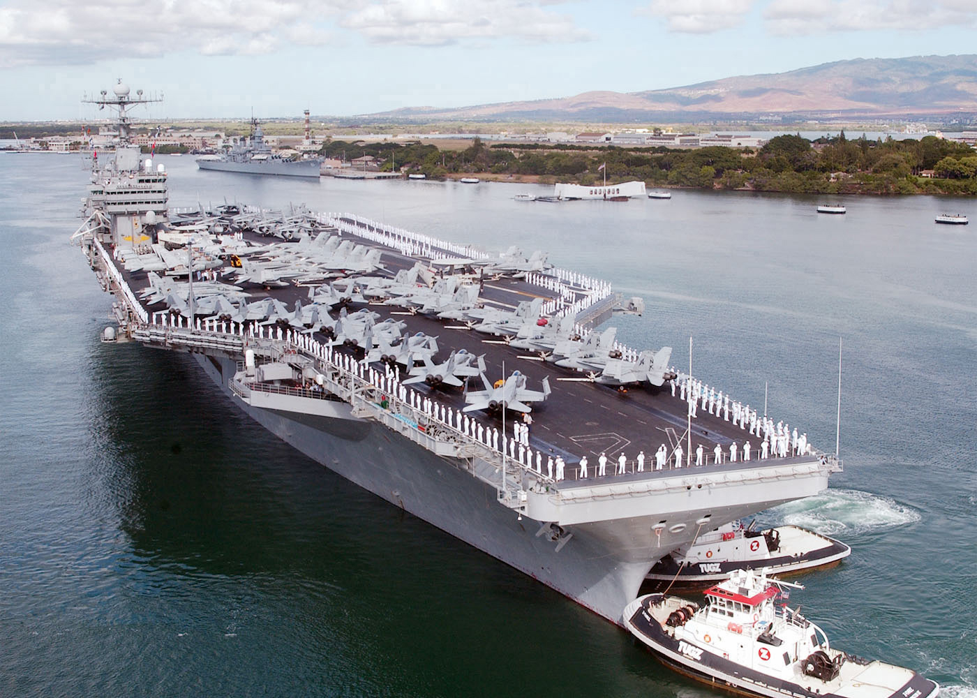 Pearl Harbor, Hawaii (Aug. 1, 2002) -- Sailors aboard the aircraft carrier USS Abraham Lincoln (CVN 72) man the rails during arrival honors, as the ship and air wing prepare for a short port visit. Abraham Lincoln and Carrier Air Wing One Four (CVW-14) began a regularly scheduled deployment in July and will be conducting missions in support of Operation Enduring Freedom. U.S. Navy photo by Photographer's Mate 3rd Class Kittie VandenBosch. (RELEASED)